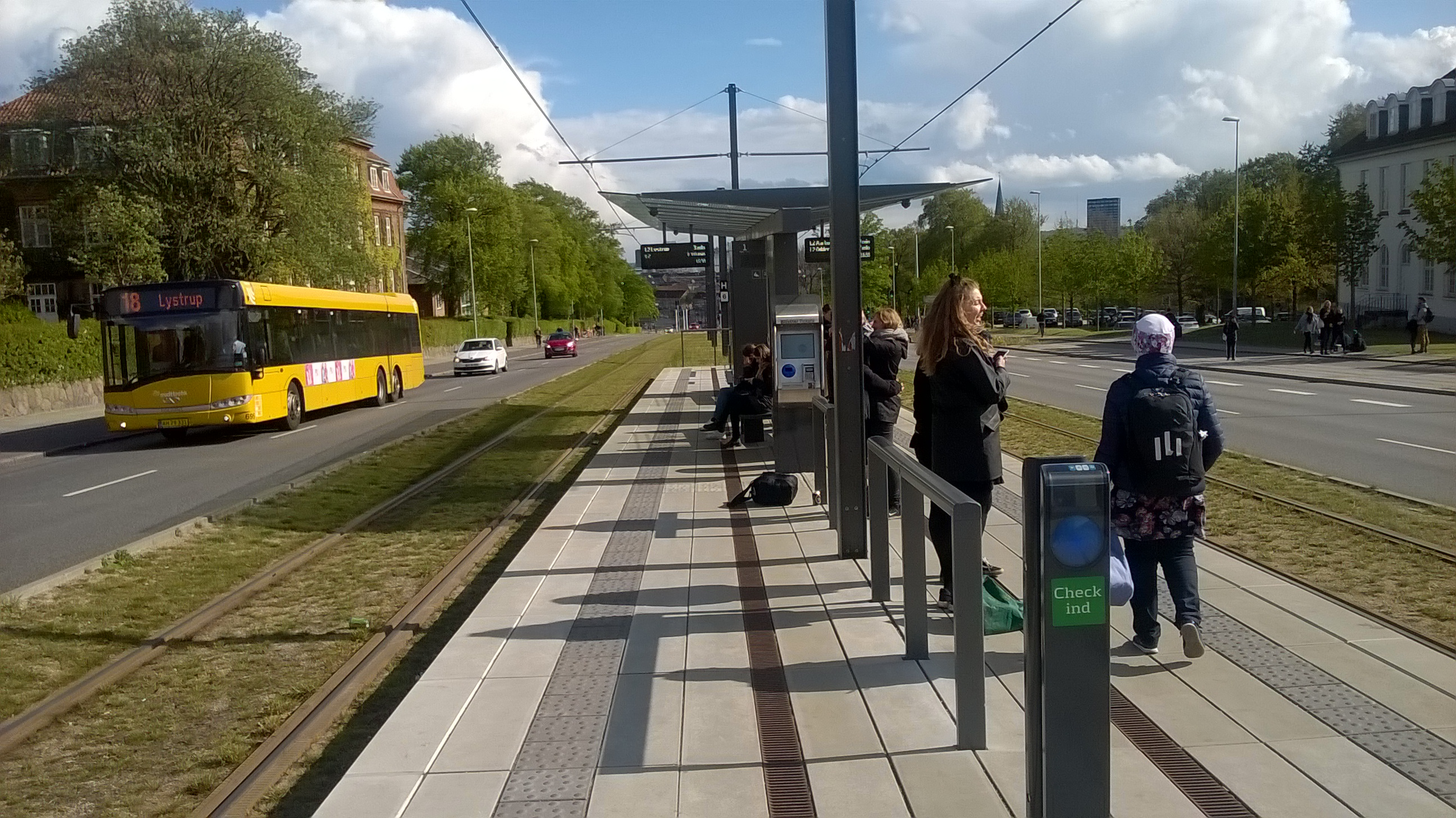 Universitetsparken Station, Aarhus Letbane